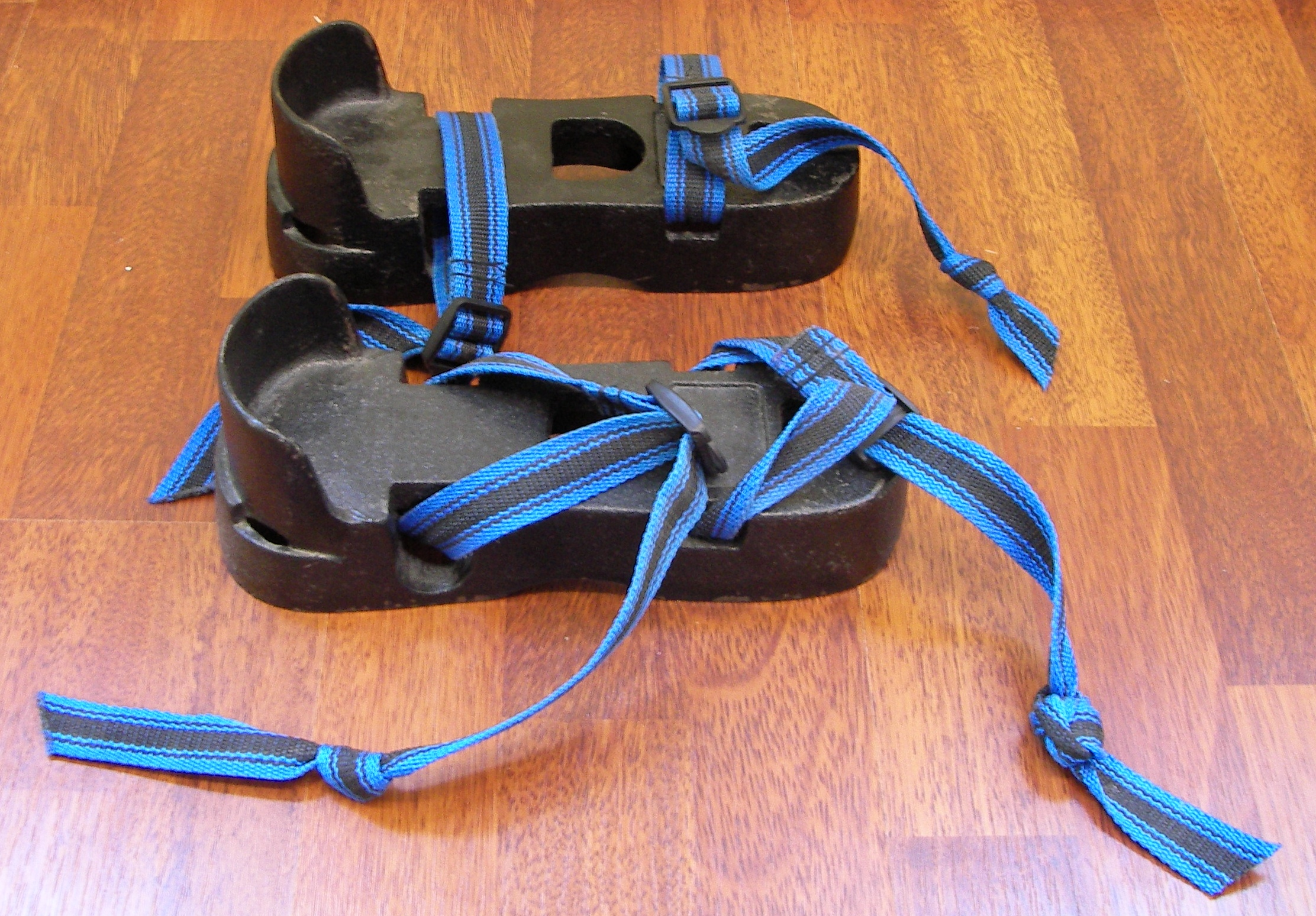 Tetsu geta (iron clogs) are worn like sandals, but requires gripping the clogs with one's toes. The practitioner then moves around and kicks while wearing these. The extra weight required to move the foot strengthens the leg for kicks.